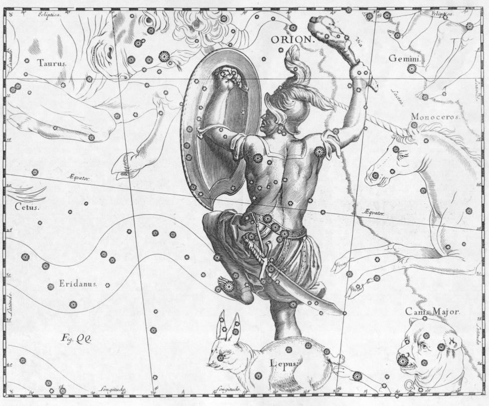 Johannes Hevelius, Prodromus Astronomia, volume III: Firmamentum Sobiescianum, sive Uranographia, table QQ: Orion, 1690.